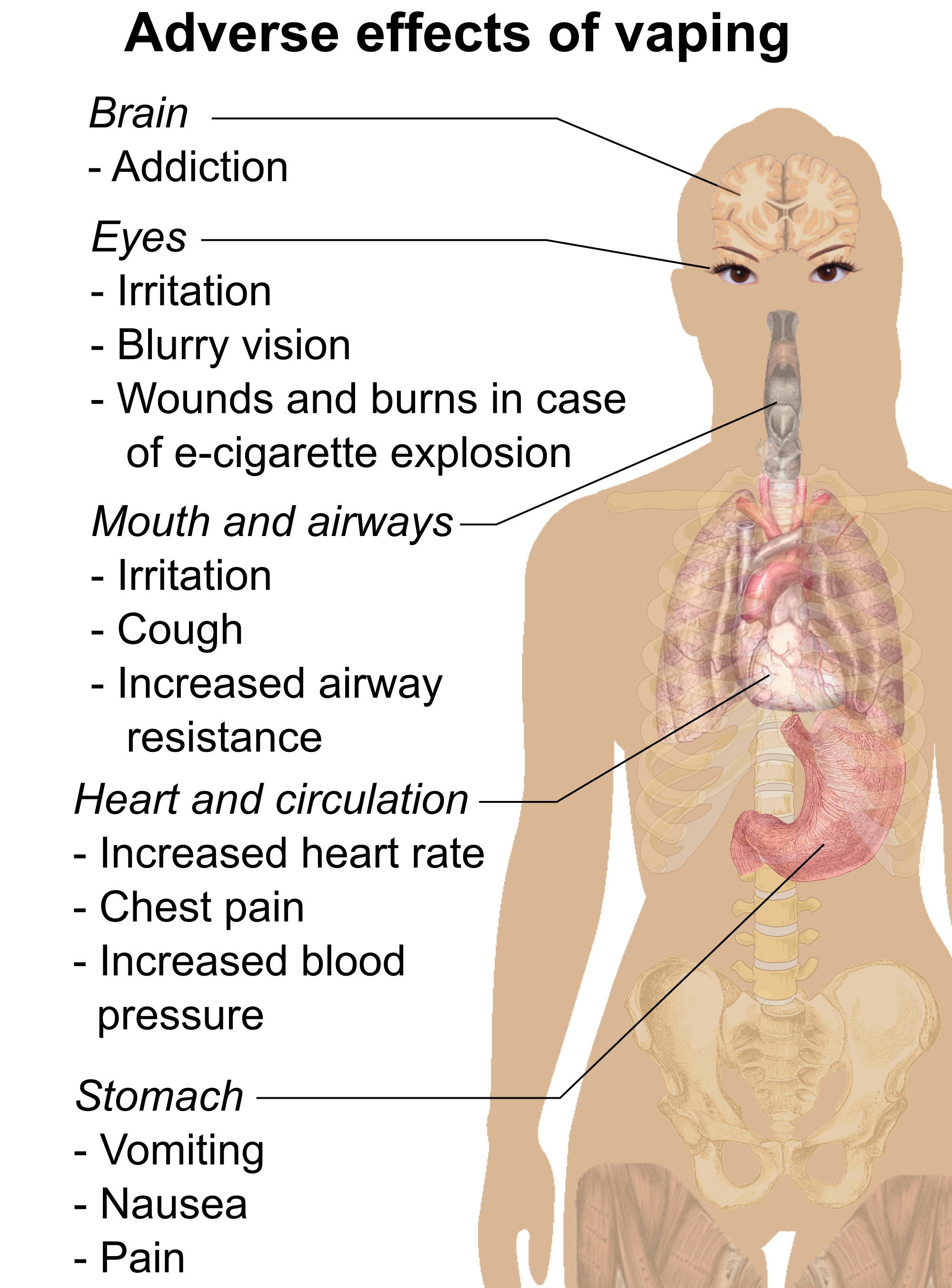 Adverse effects of vaping. Entries Brain: Addiction[1] Dizziness[2] Headaches[2] Eyes: Eye irritation[3] and blurry vision[2] Corneoscleral lacerations or ocular burns after e-cigarette explosion[4] Airways: Irritation and cough[5] Increased airway resistance[6][7] Irritation of the pharynx[8] Stomach: Nausea and vomiting[5][7] Abdominal pain[2] Heart and circulation: Chest pain[7] Increased blood pressure[7] Increased heart rate[7] Mortality: Death after e-cigarette explosion (small risk)[4] References ↑ State Health Officer's Report on E-Cigarettes: A Community Health Threat. California Tobacco Control Program (January 2015). ↑ a b c d (2014). "Science and Electronic Cigarettes". Journal of Addiction Medicine 8 (4): 223–233. PMID 25089952. PMC: 4122311. ISSN 1932-0620. ↑ (28 April 2015). "E-cigarettes: Considerations for the otolaryngologist.". International journal of pediatric otorhinolaryngology. PMID 25998217. ↑ a b (2016). "Corneoscleral Laceration and Ocular Burns Caused by Electronic Cigarette Explosions". Cornea 35 (7): 1015–1018. PMID 27191672. PMC: 4900417. ISSN 0277-3740. ↑ a b Grana, R (13 May 2014). "E-cigarettes: a scientific review.". Circulation 129 (19): 1972–86. PMID 24821826. PMC: 4018182. ↑ Ebbert, Jon O. (2015). "Counseling Patients on the Use of Electronic Cigarettes". Mayo Clinic Proceedings 90 (1): 128–134. PMID 25572196. ISSN 00256196. ↑ a b c d e Orellana-Barrios, Menfil A. (2015). "Electronic cigarettes-a narrative review for clinicians". The American Journal of Medicine. PMID 25731134. ISSN 00029343. ↑ (2017). "E-Cigarettes and Smoking Cessation: A Primer for Oncology Clinicians". Clin J Oncol Nurs. PMID 28107337. To discuss image, please see Template talk:Human body diagrams